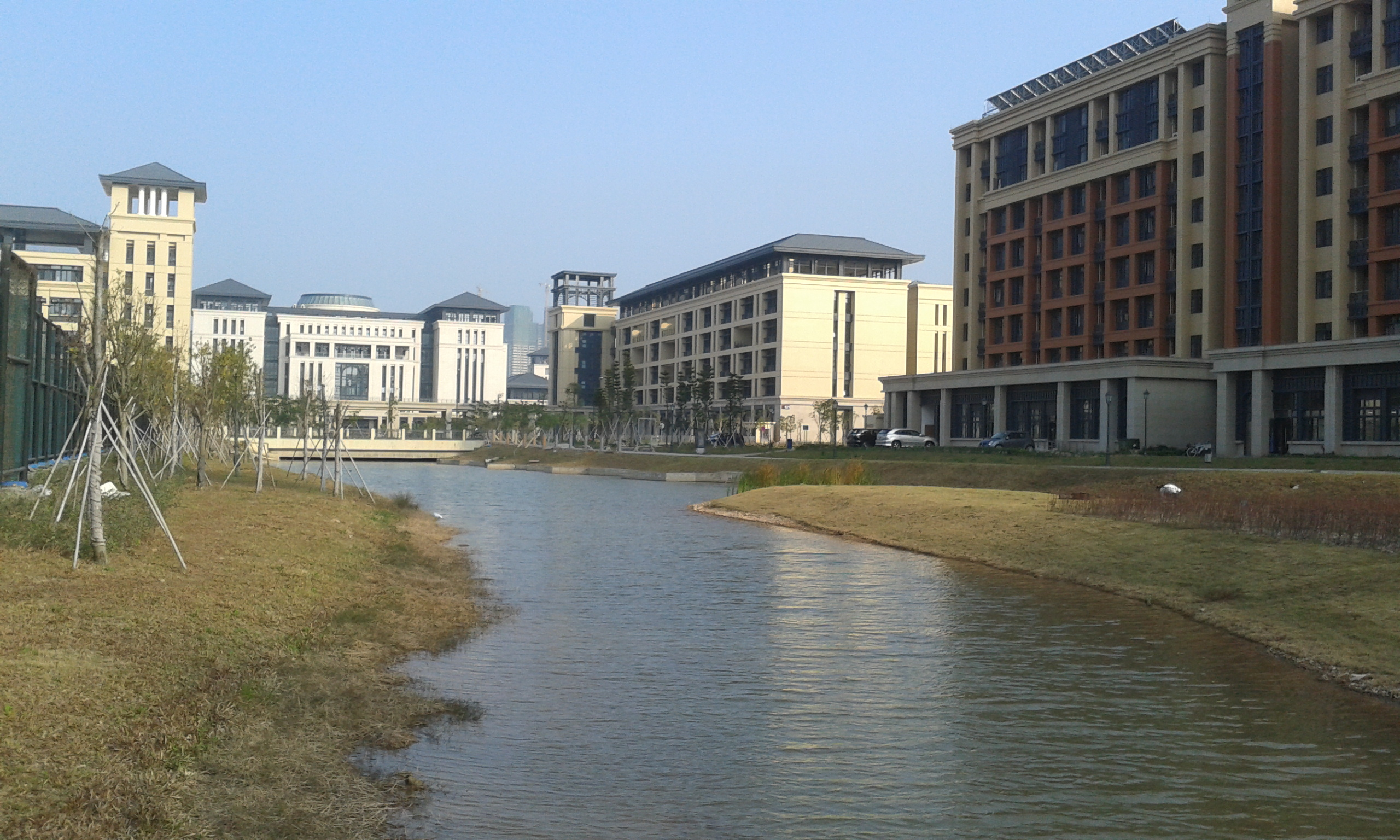 UM in Hengqin